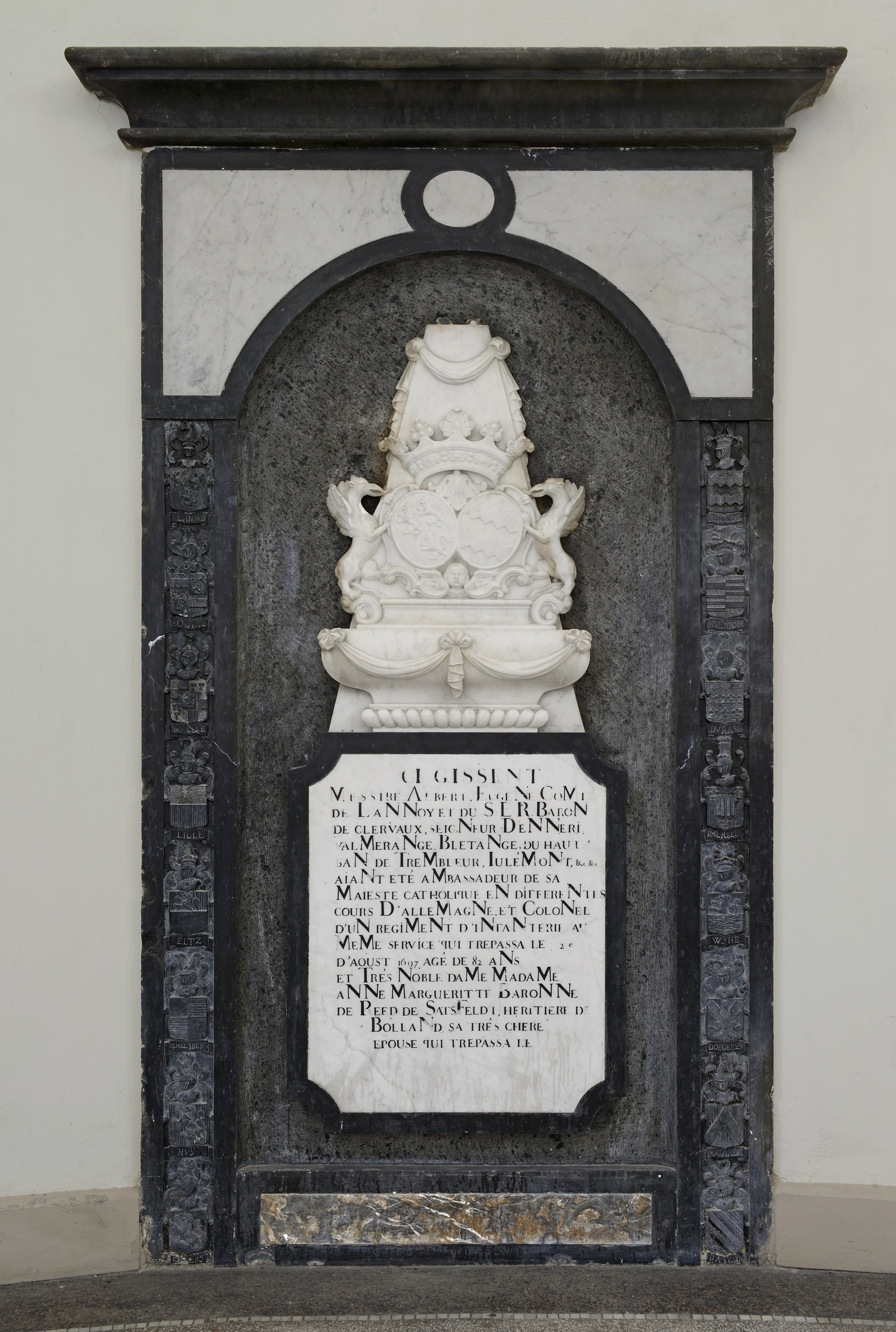 Tombstone of Count Albert Eugène de Lannoy, deceased August 25 1697, and his wife in the Loretto Chapel at Clervaux, Luxembourg.